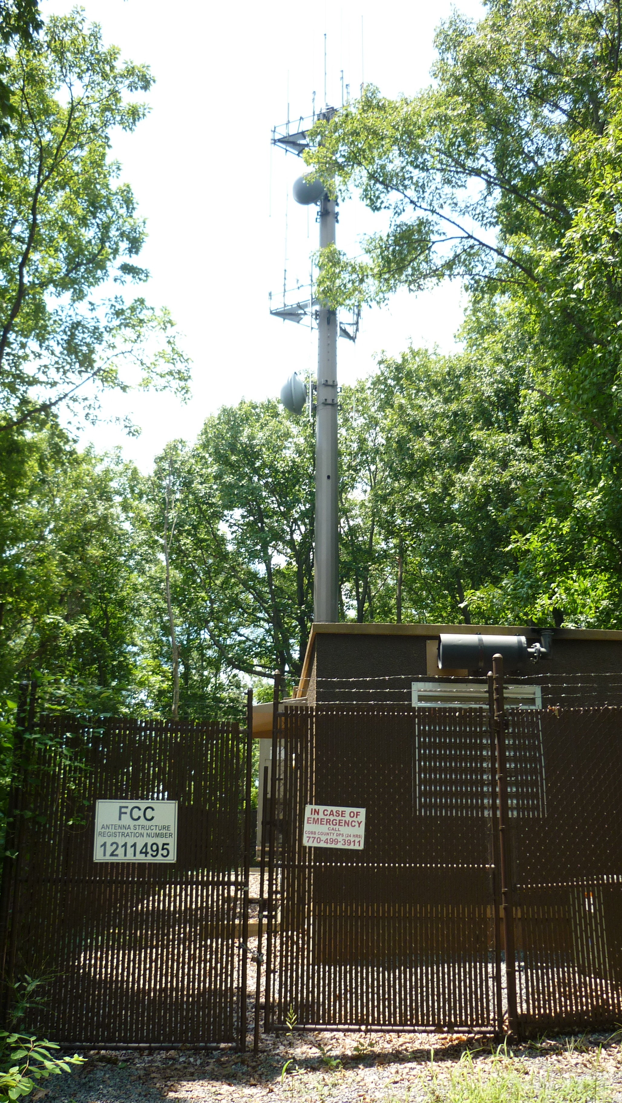 Antenna Tower and Transmitting Shack at Kennesaw Mountain